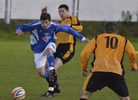 Ruben Bover Izquierdo, whilst playing for Halesowen Town in 2010